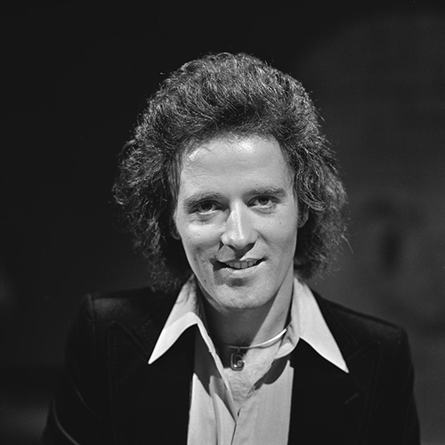 Gilbert O'Sullivan in AVRO's TopPop (Dutch television show) in 1974